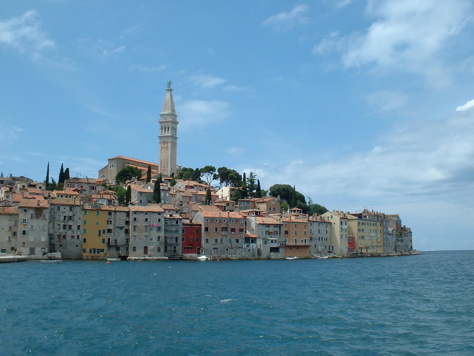 City of Rovinj